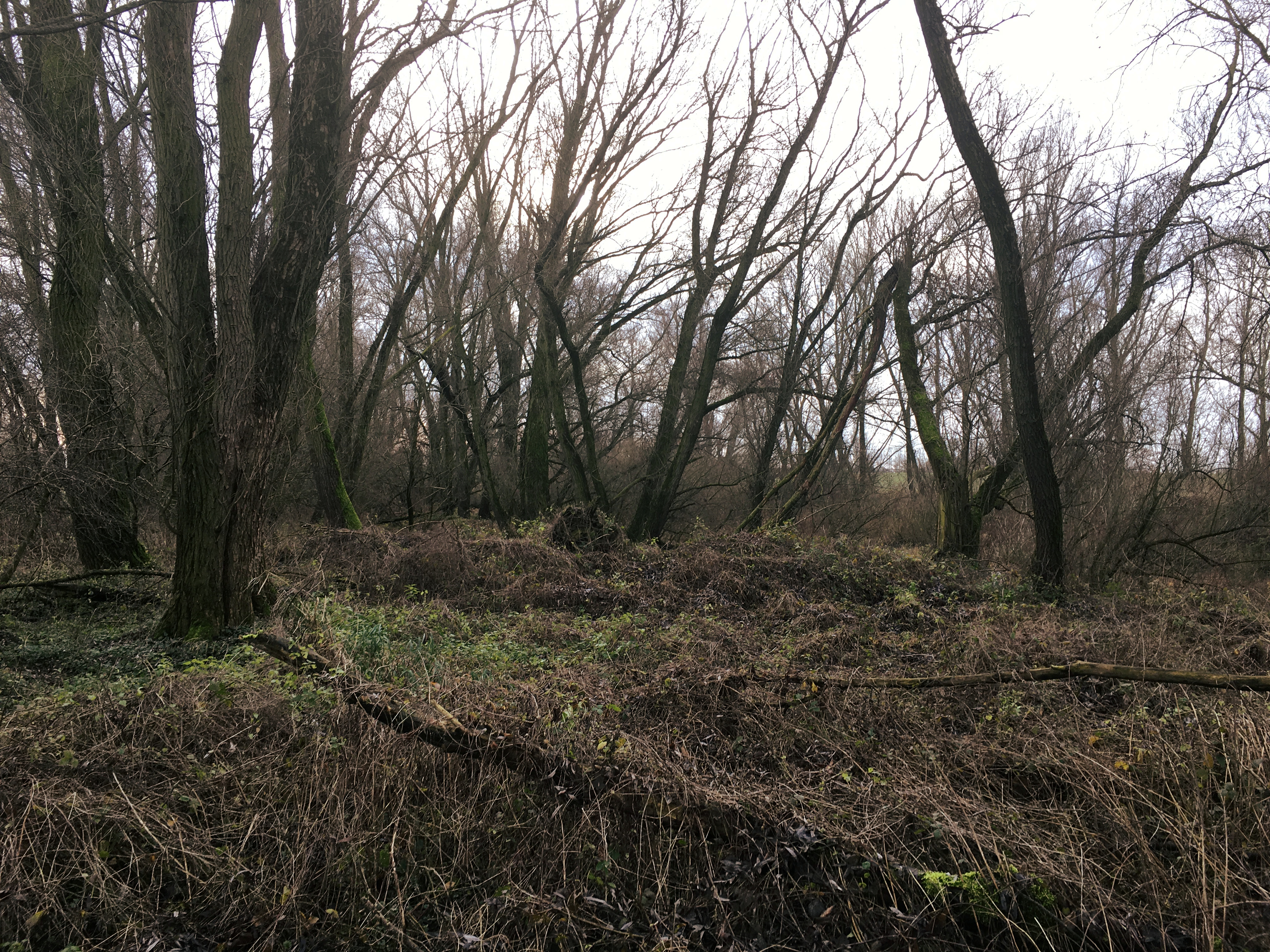 Riparian forests in Angeren, Lingewaard